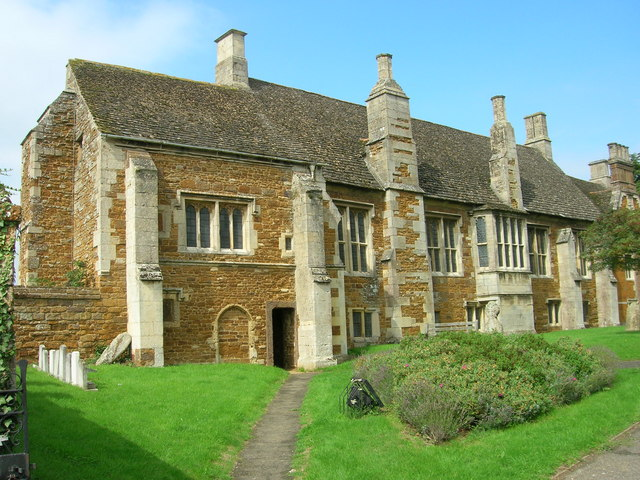 Lyddington Bede House Cared for by English Heritage.